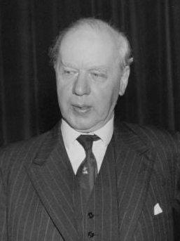 Max von Sydow, Anders Österling and Giancarlo Vigorelli